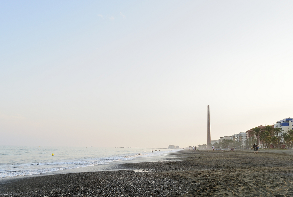 Misericordia Beach, Malaga, Spain.